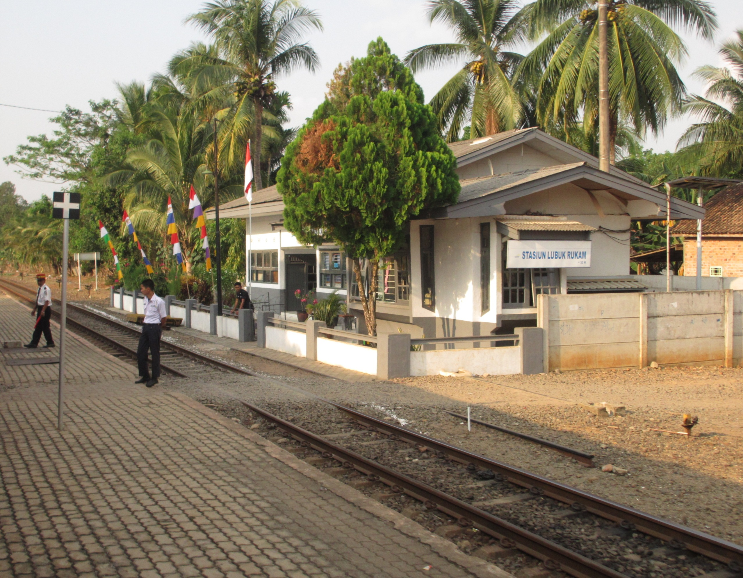 Lubukrukam Railway Station